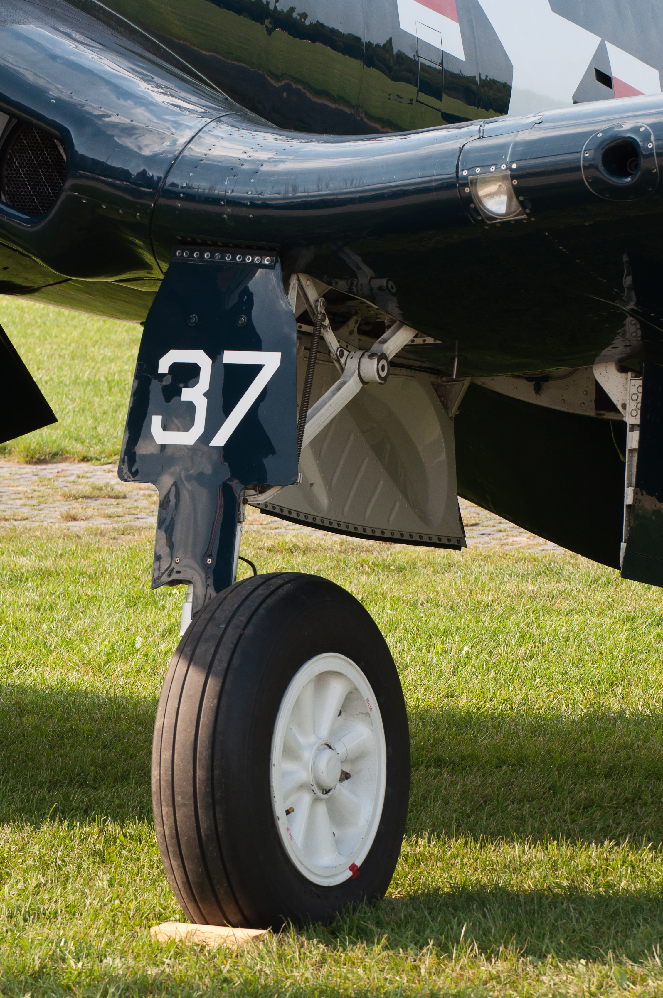 Eric Goujon/Red Bull Vought F4U-4 Corsair (reg. OE-EAS, cn 9149, built in 1945). Engine: Pratt & Whitney R2800 CB-3 (2100 hp).